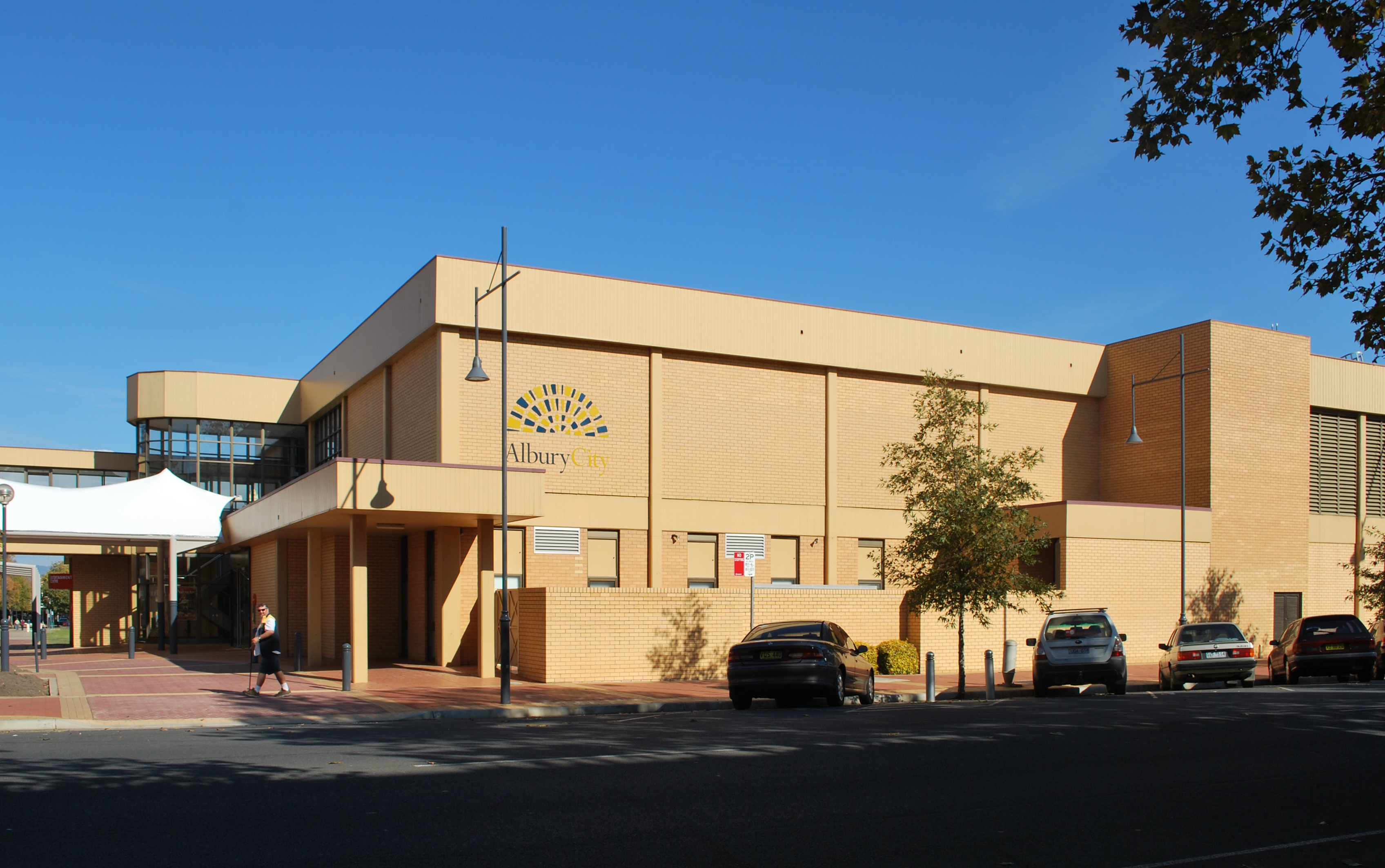 The Albury Entertainment Centre at Albury, New South Wales